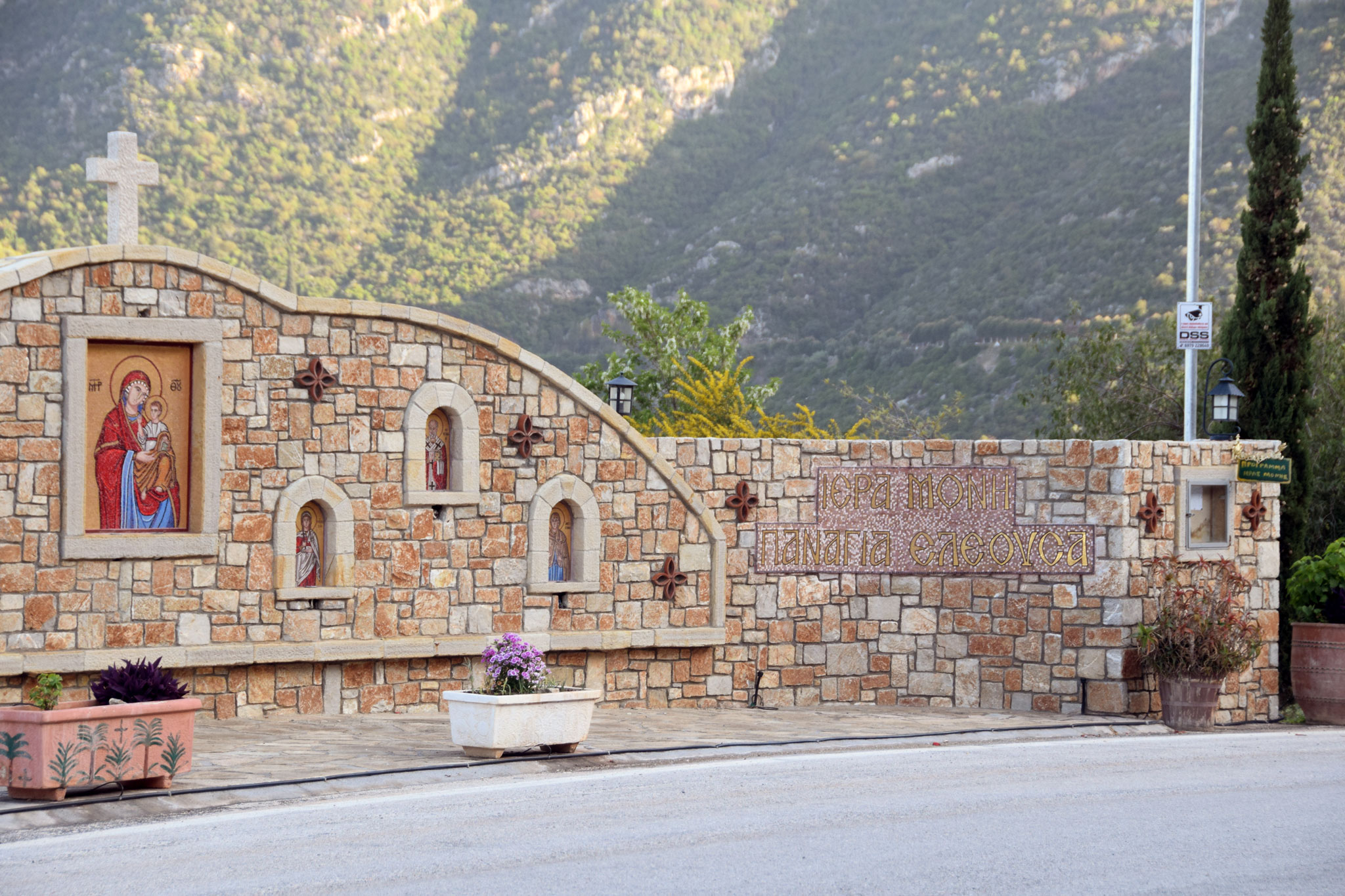 Entrance of Palaiopanagia monastery in Arcadia, Greece.